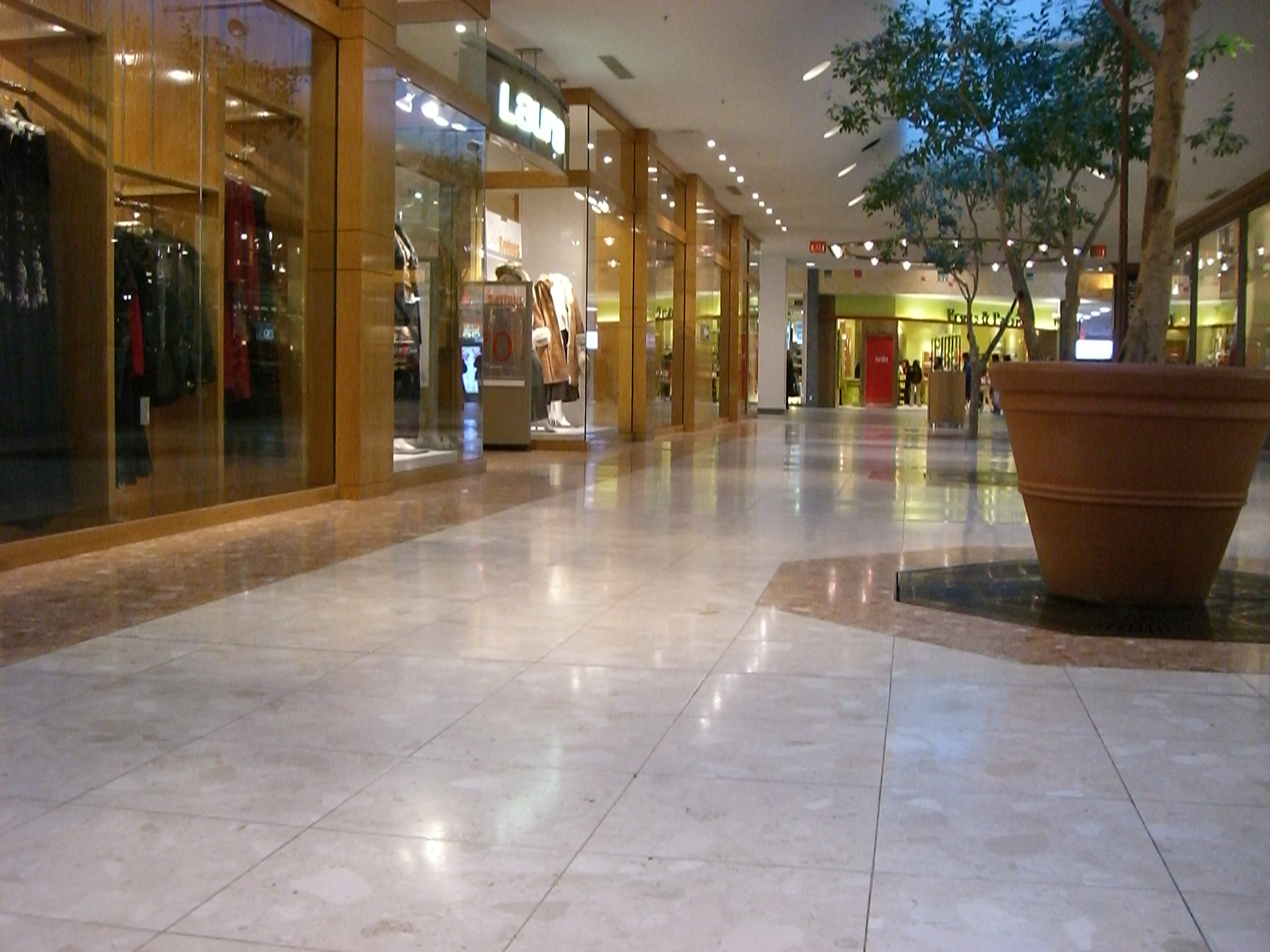 Second floor of the Square One Shopping Centre in Mississauga, Ontario, on a Sunday afternoon. I, User:OwenX, photographed this on 14 January 2007 in Mississauga, Canada using a Casio EX-S600 digital camera. I am hereby licensing this image to the Wikimedia Foundation in perpetuity under the terms of GFDL.